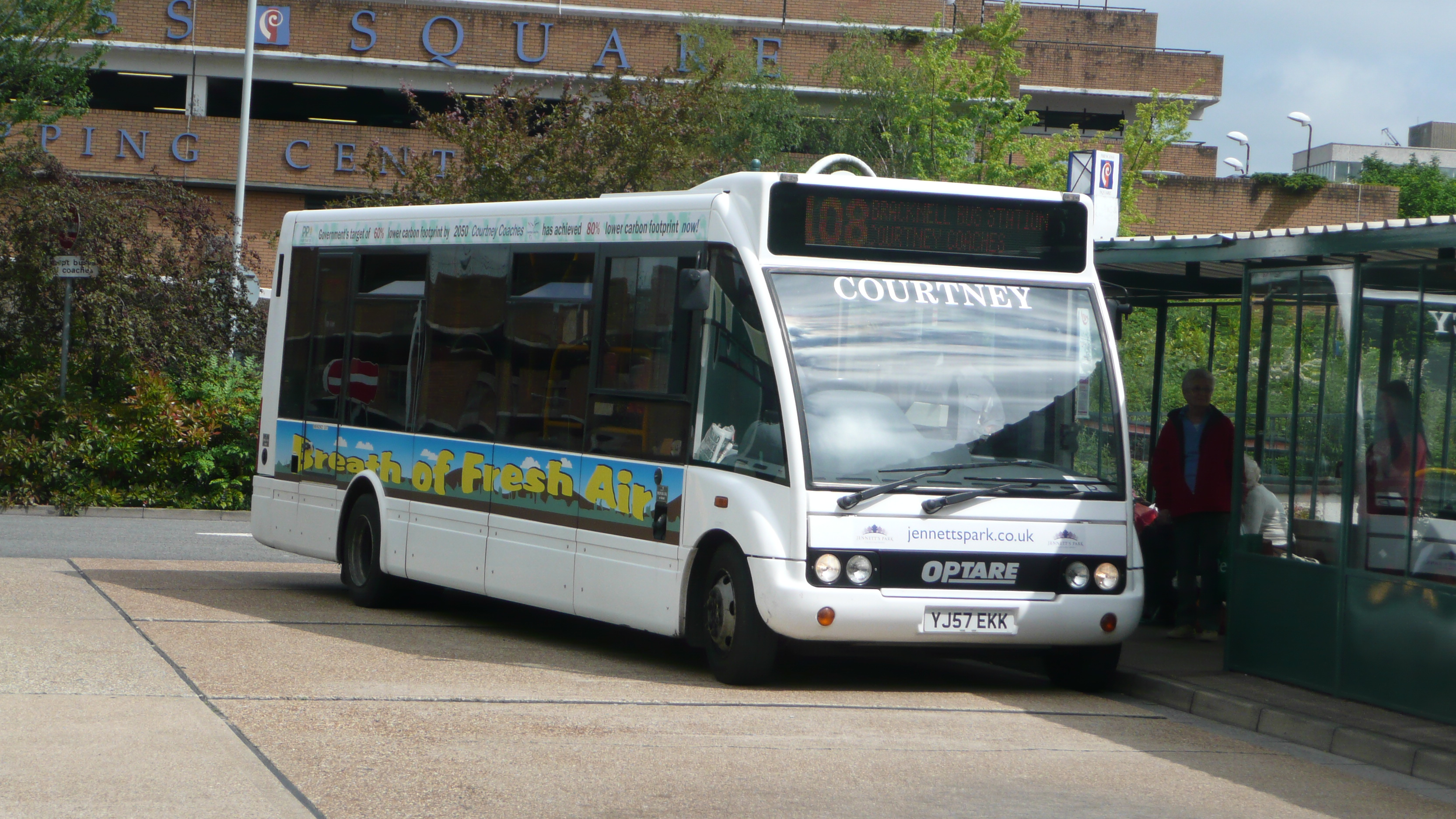 Courtney Coaches YJ57 EKK, an Optare Solo Slimline 8.8m, in Bracknell bus station, Bracknell, Berkshire, on route 108. This vehicle runs on vegetable oil.